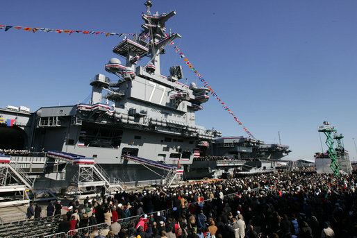 Guests and U.S. Navy personnel crowd the dock at the commissioning ceremony of the USS George H.W. Bush (CVN 77) aircraft carrier Saturday, Jan 10, 2009 in Norfolk, Va., named in honor of former President George H.W. Bush. White House photo by Joyce N. Boghosian